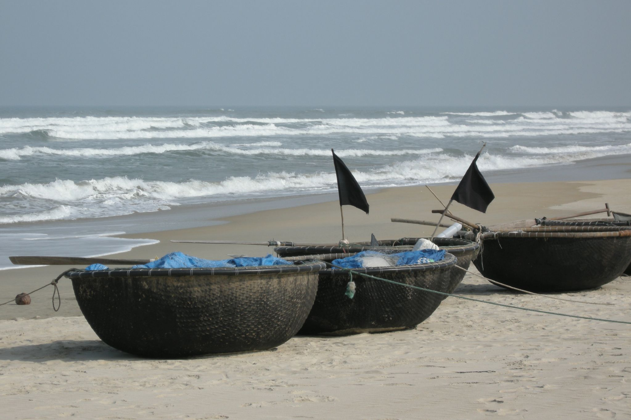 Round "coracle" fishing boats on Non Nuoc beach, Da Nang.